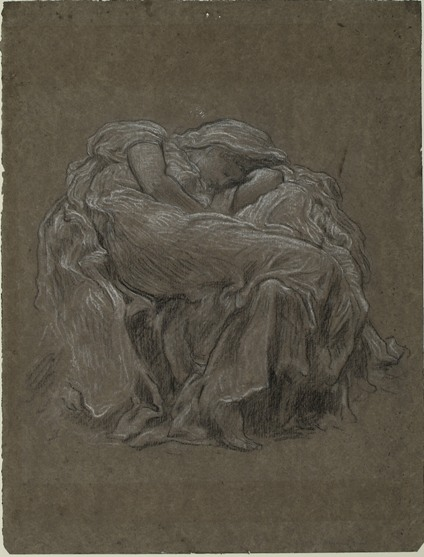 Study for Flaming June